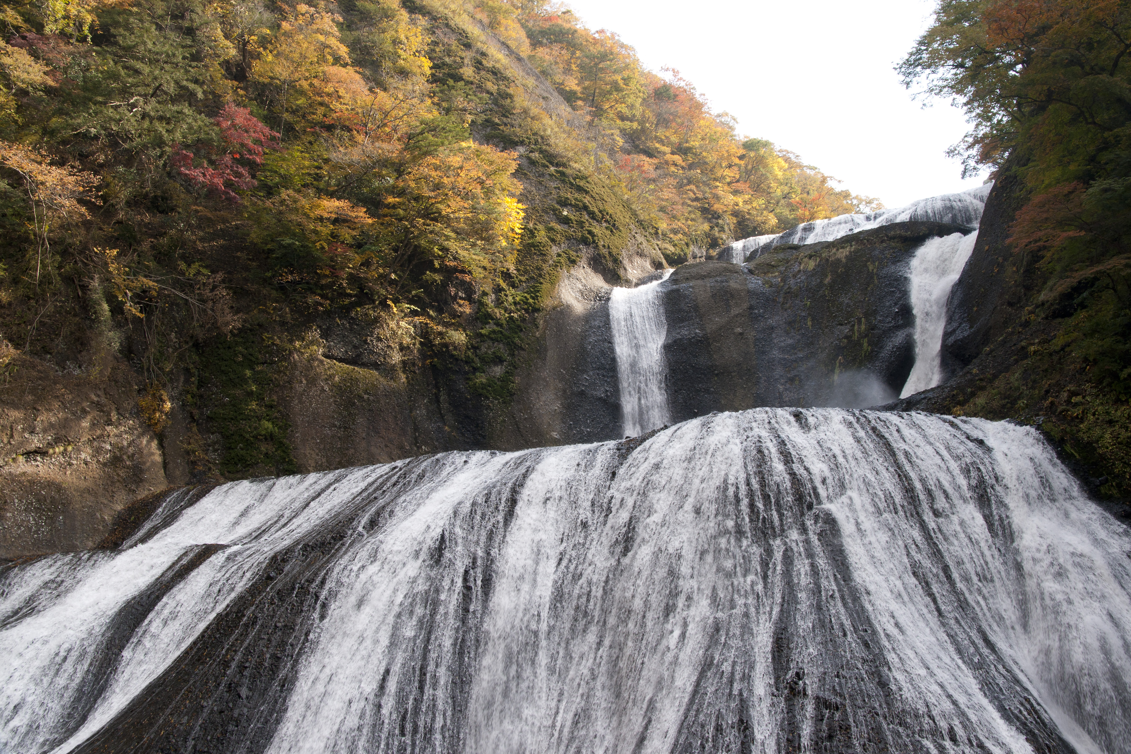 Fukuroda Falls (Fukuroda-no-taki 袋田の滝) in Daigo Town, Ibaraki Pref., Japan